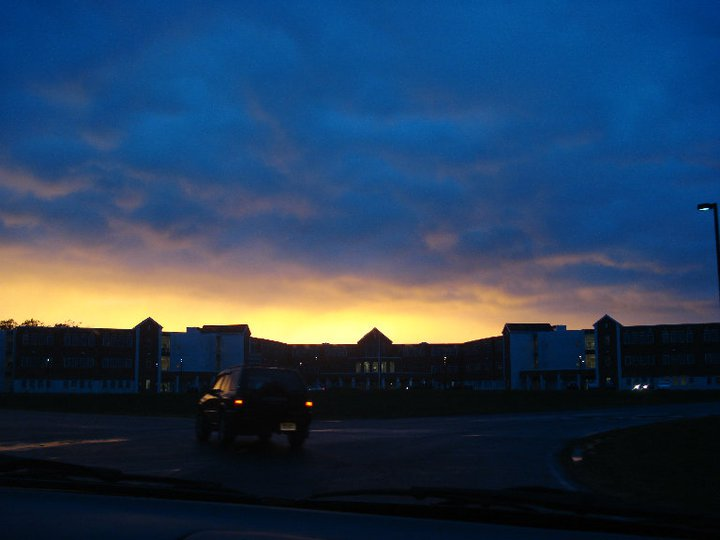 Franklin High School (New Jersey) at sunset.